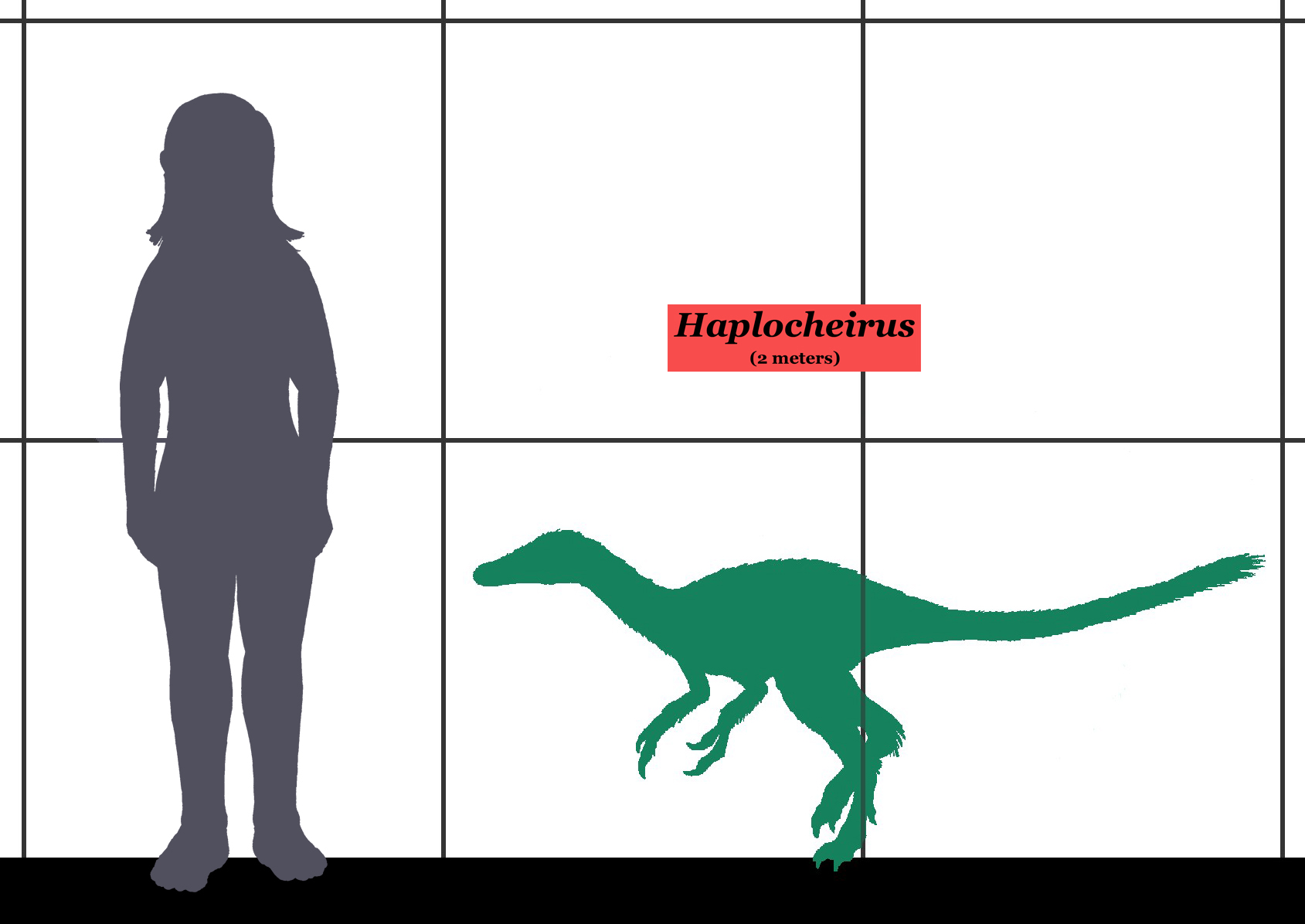 Size comparison between the theropod dinosaurs Haplocheirus and a human.